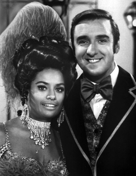 Publicity photo of Barbara McNair and Jim Nabors from the television program The Jim Nabors Hour.